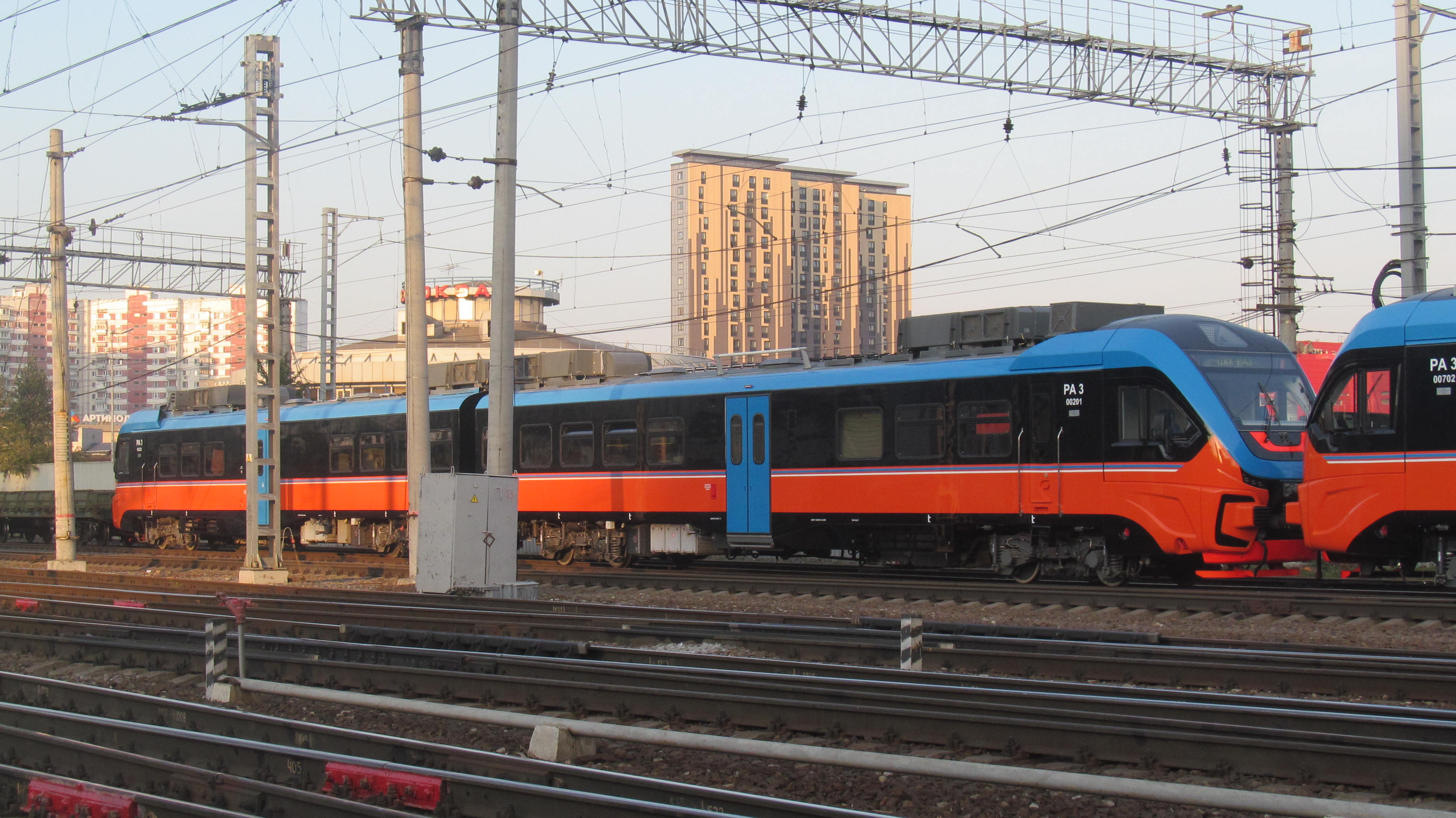 RA3-002 DMU-train (one of experimental units) after colour change (in orange-cyan)